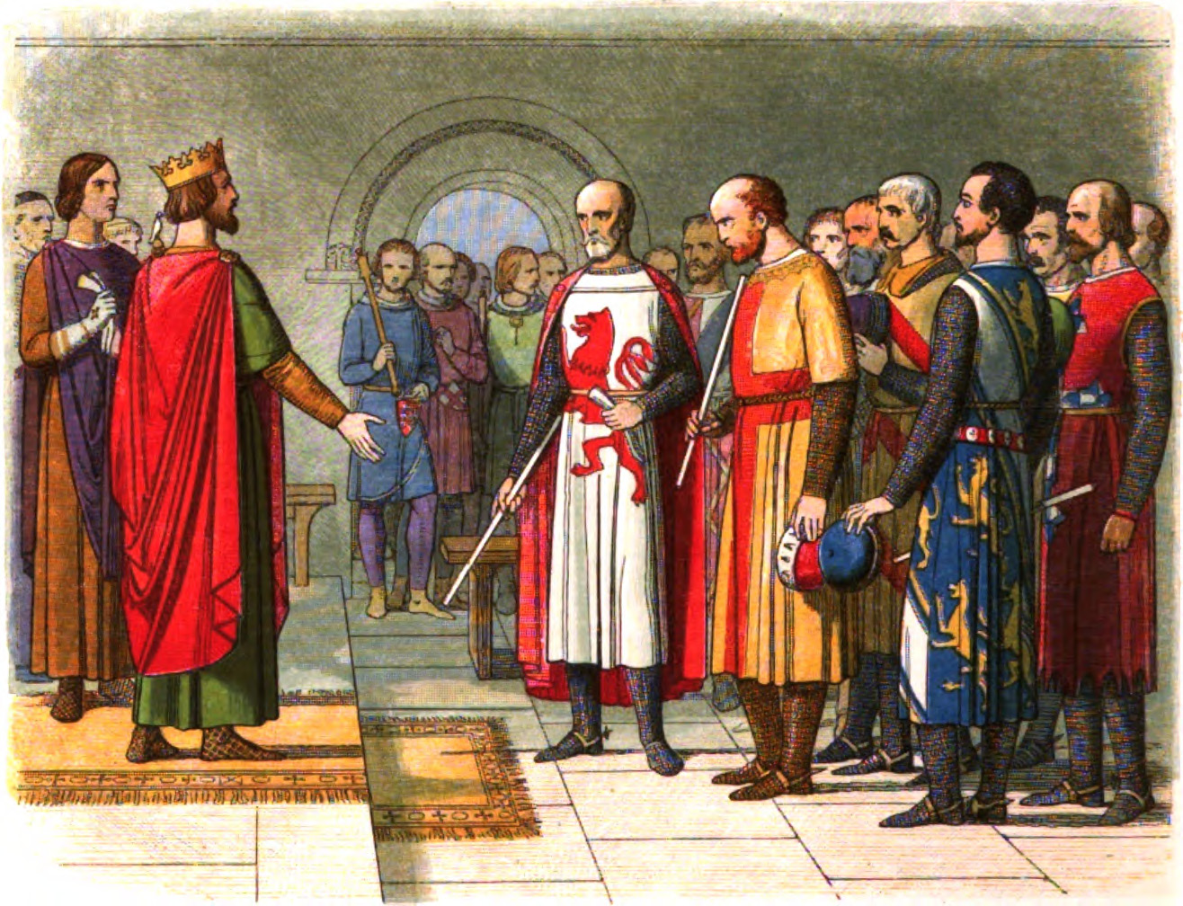 Henry III of England meets with his parliament.